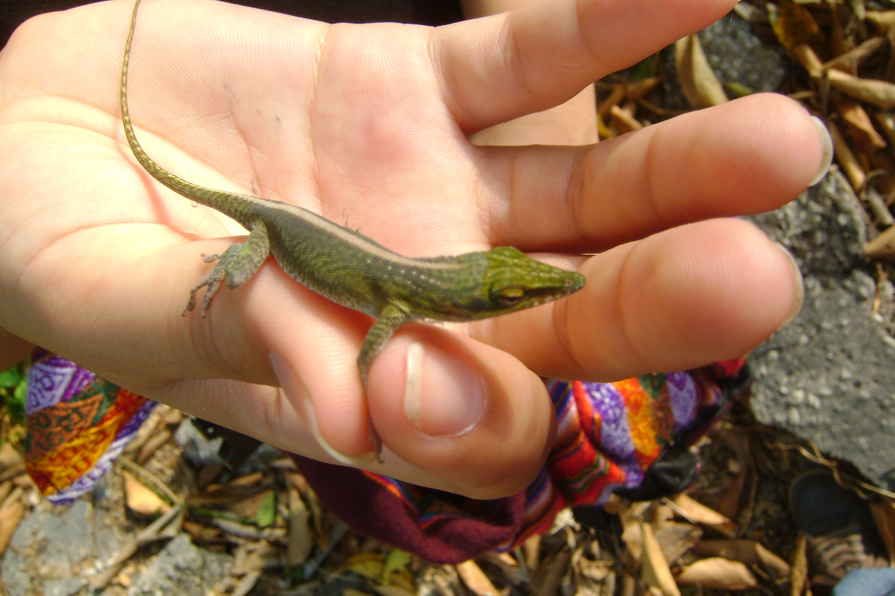 Anolis porcatus